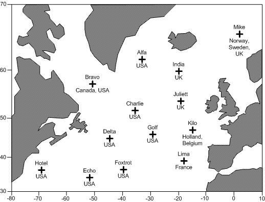 Locations of weather ships in the Atlantic ocean after the ICAO conference held in London in 1946